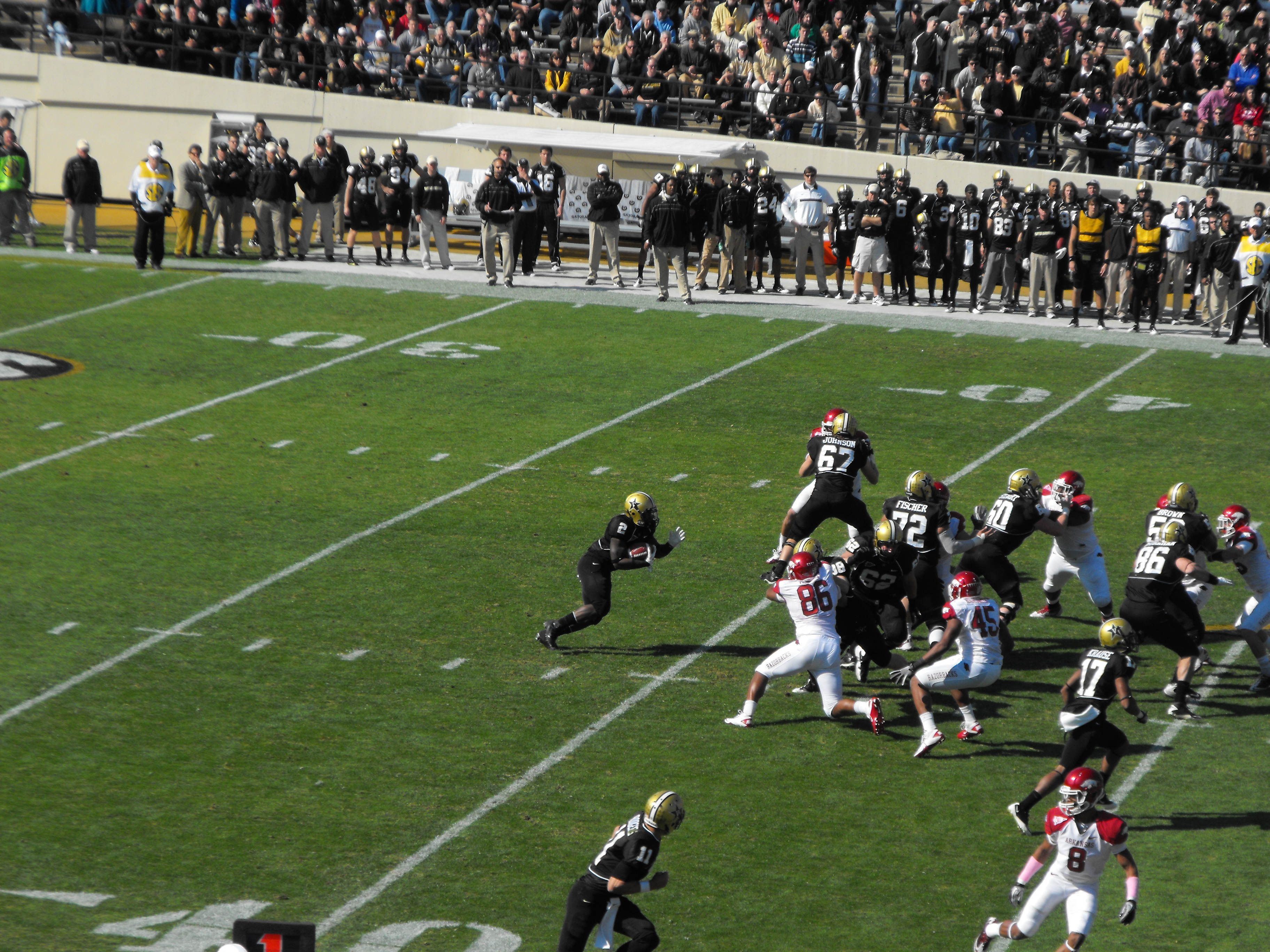 Made using Paint Pro XII